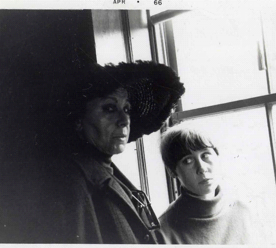 Louise Nevelson and Neith Nevelson. Previously unpublished picture.